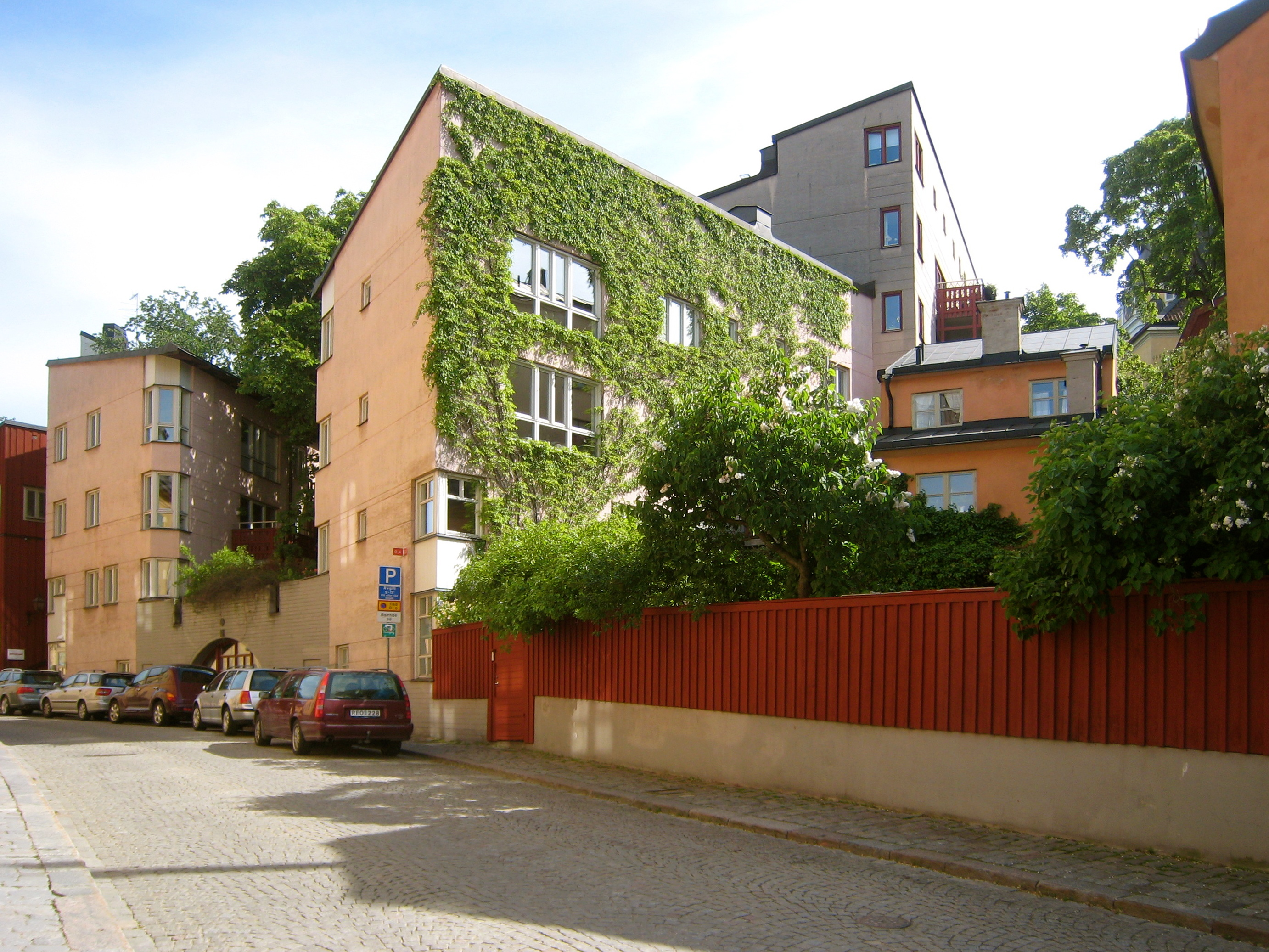 Kvarteret Drottningen from Glasbruksgatan.